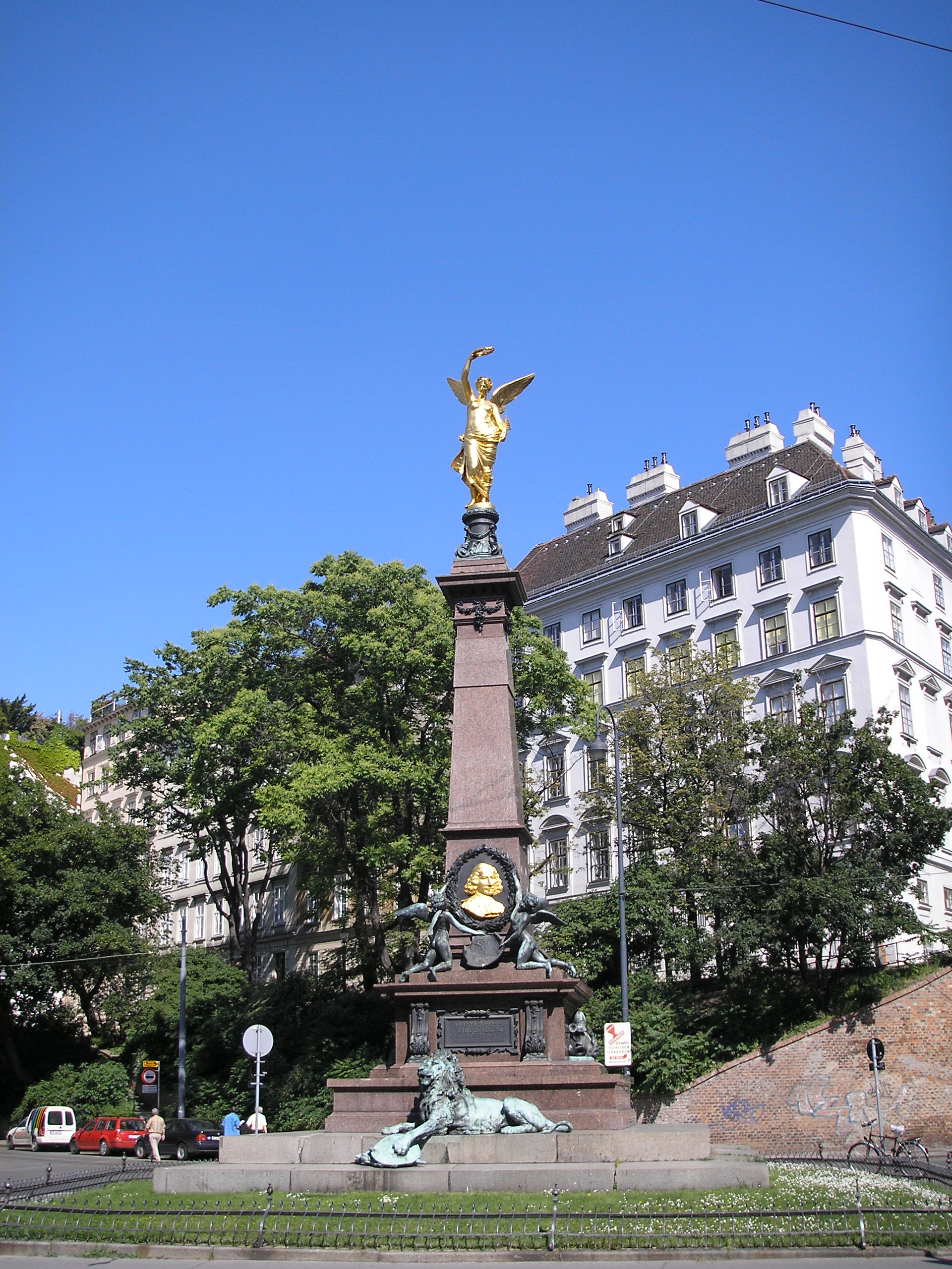 Monument to the mayor of Vienna Johann Andreas von Liebenberg in Vienna's first district Innere Stadt.